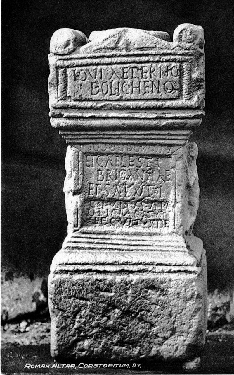 J. P. Gibson's postcard (No. 97) of an altar to Jupiter Dolichenus and Caelestis Brigantia (RIB 1131) from Corbridge. Found in 1910, it was re-used as a kerb stone south of Site 11.